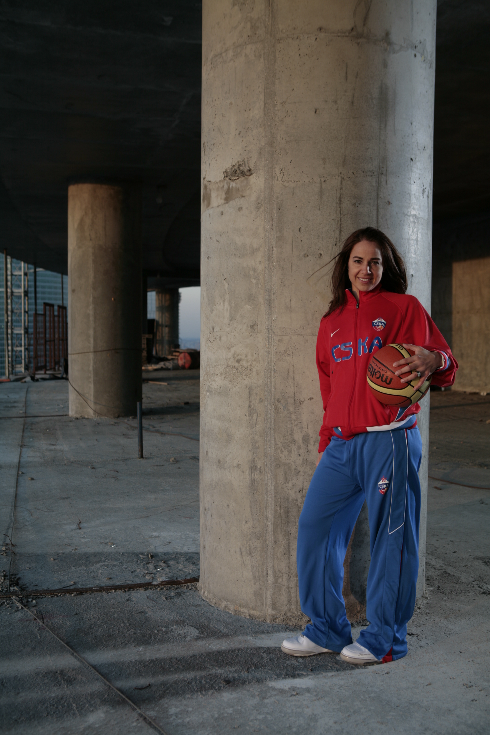 Becky Hammon